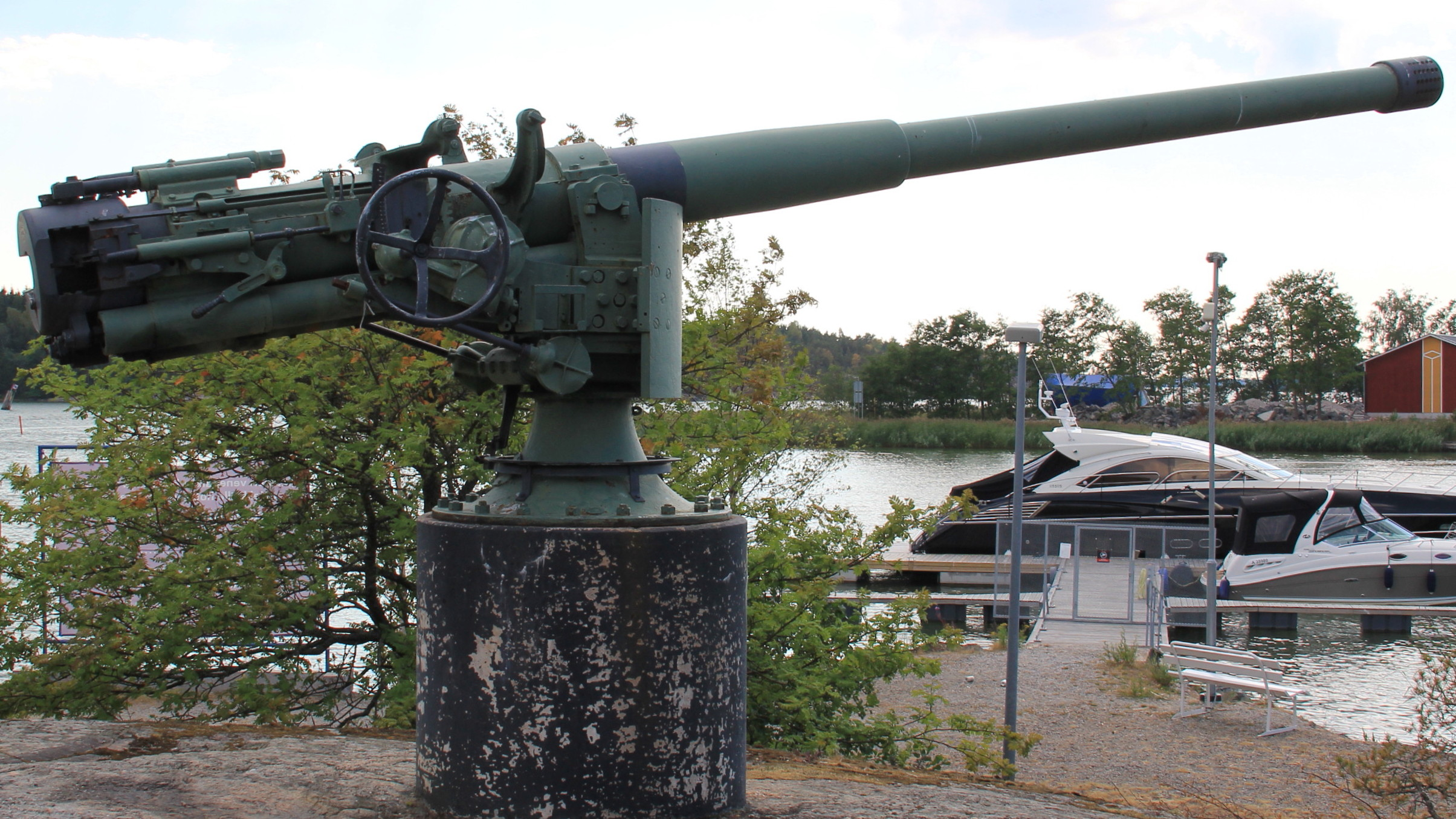 Memorial for coastal defence, Uusikaupunki, Finland. - A Obukhov 105/58 nr 99/33 naval cannon wa manufacturd in Saint Petersburg in 1914. Memorial was unveiled in 1998.